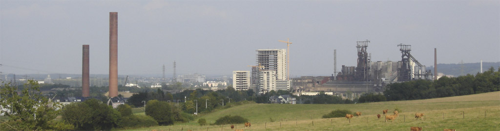 The brownfield of Belval, on the boundary of the municipalities of Sanem and Esch-sur-Alzette, in 2005. The site is currently being urbanised; see Belval, Luxembourg Author: Own picture by User:JimHawk